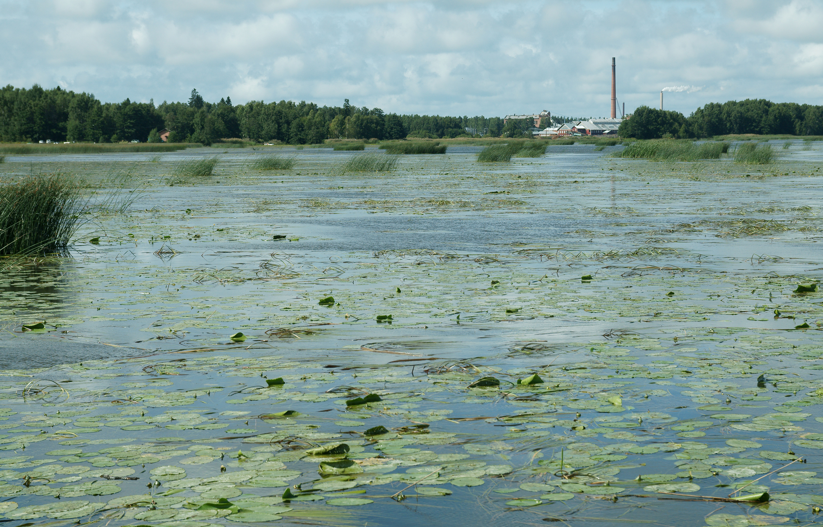 The delta of Kokemäki river in Meri-Pori, Finland.